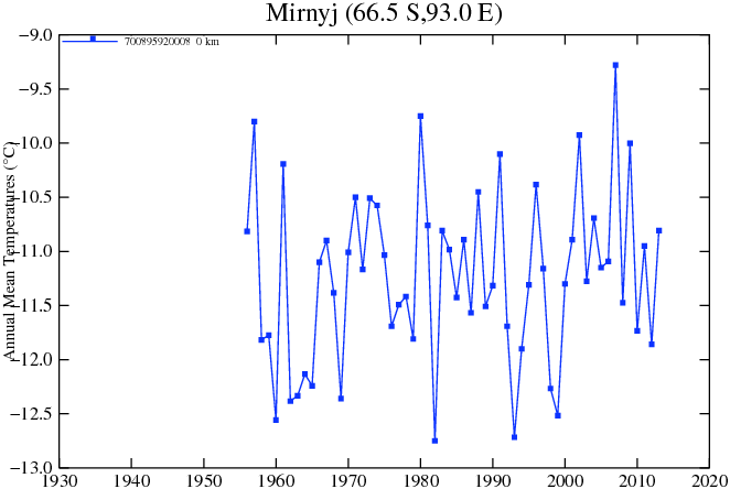 Climate graph of 1956 2014 air average temperaturas at Mirny Base